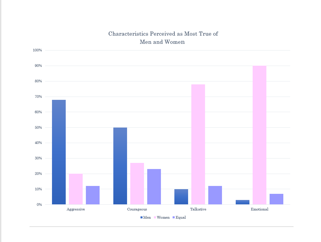 Data is extracted from "Americans See Women as Emotional and Affectionate, Men As More Aggressive" at